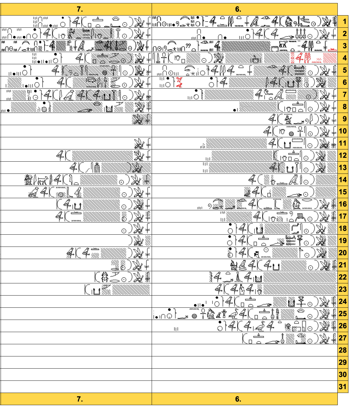 Drawing of the Turin King List (Turin Royal Canon)